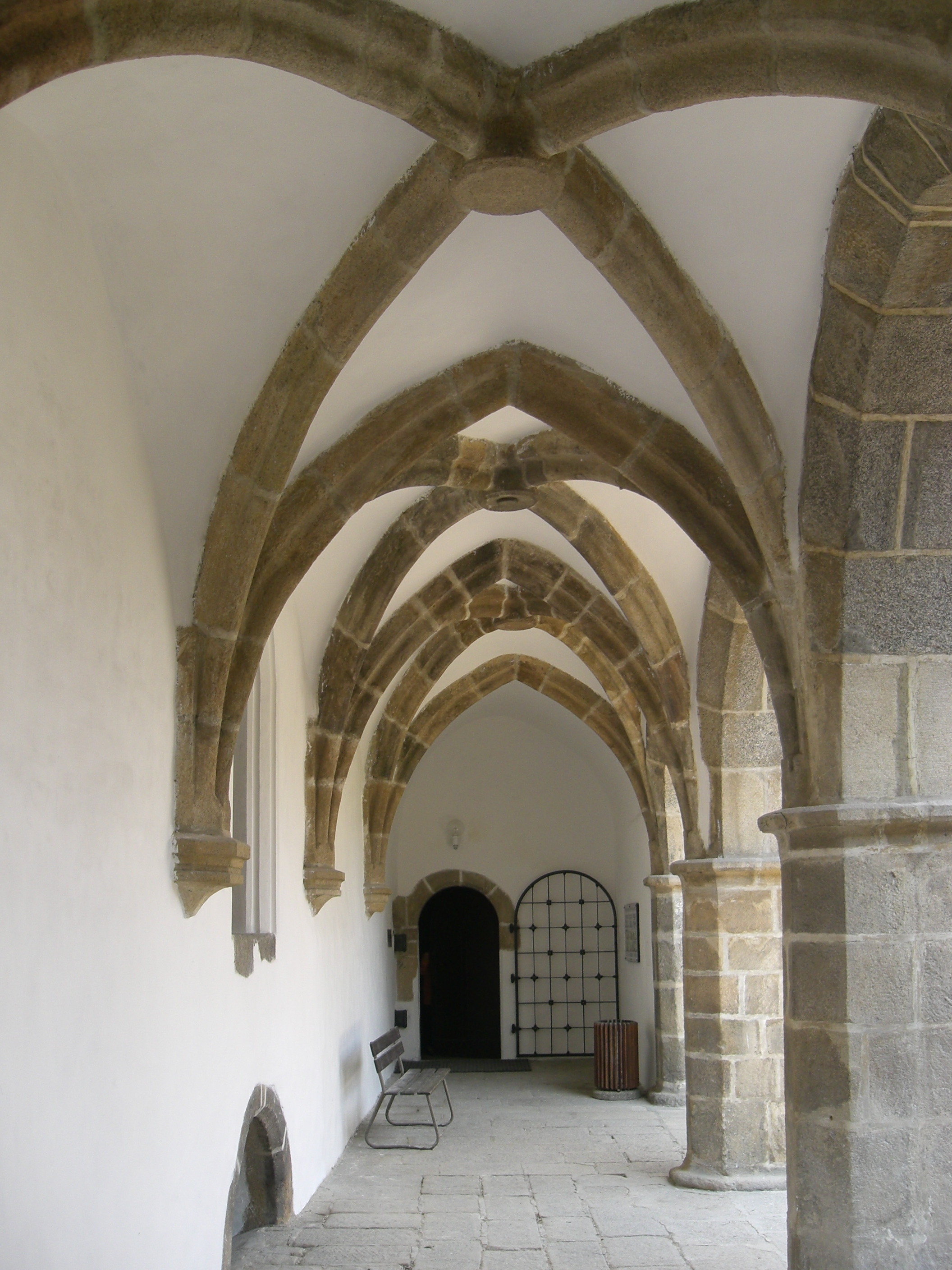 Castle in Písek from the town-hall sight - entrance door to Prácheňské muzeum.